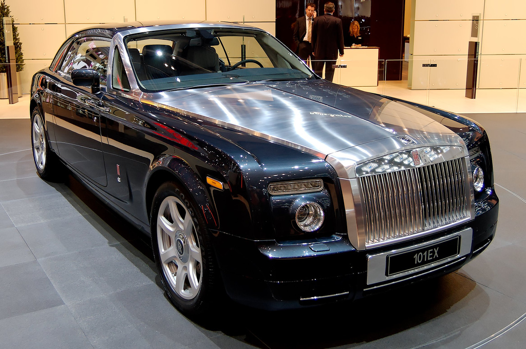 Rolls Royce 101EX taken at the 2006 Geneva Auto Show